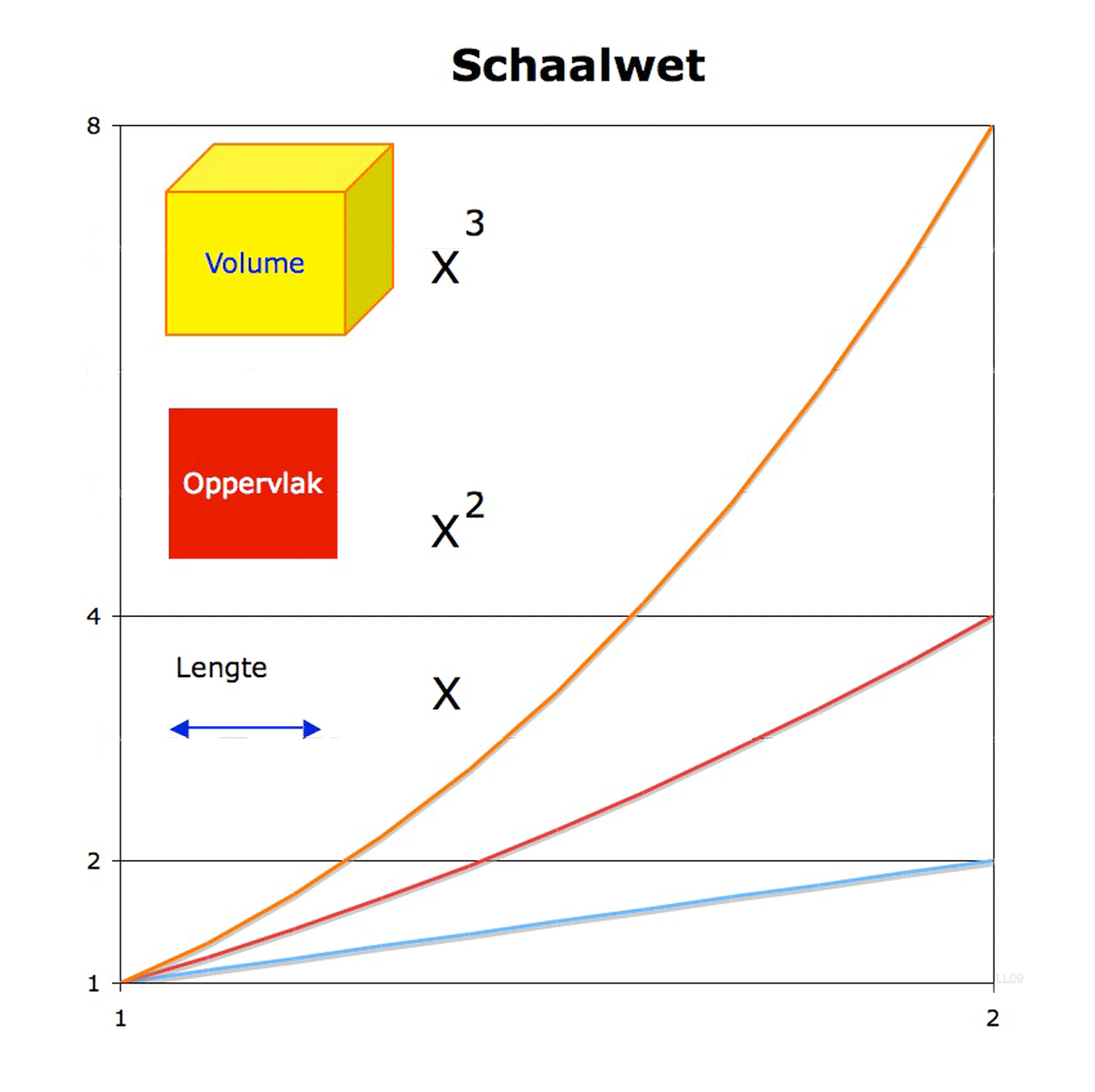 Schaalwet. Dutch version of the ‘Scaling_law’ drawing.